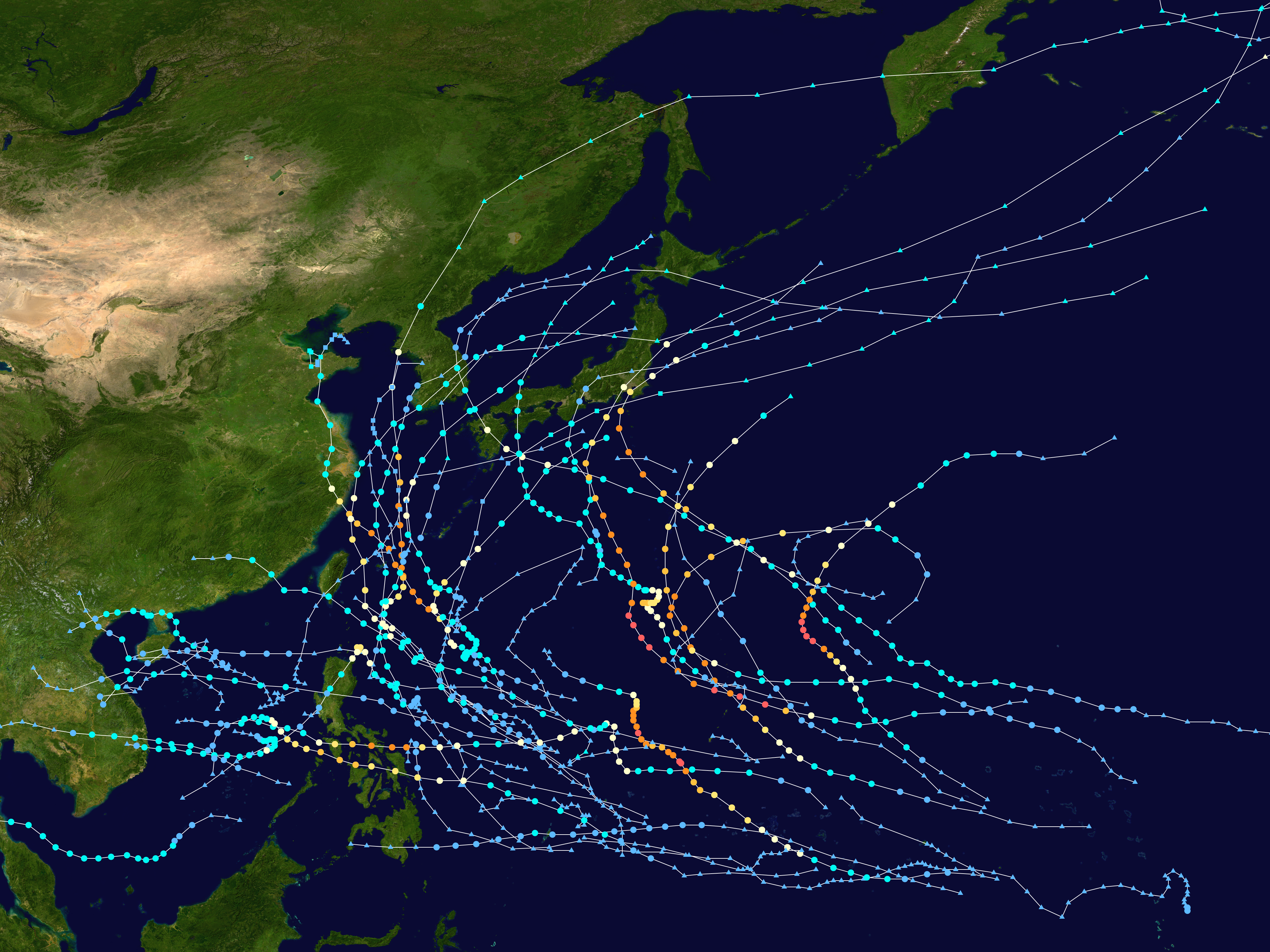 This map shows the tracks of all tropical cyclones in the 2019 Pacific typhoon season. The points show the location of each storm at 6-hour intervals. The colour represents the storm's maximum sustained wind speeds as classified in the Saffir-Simpson Hurricane Scale (see below), and the shape of the data points represent the type of the storm. Map generation parameters: --res 4000 --extra 1 --dots 0.2 --lines 0.04 --xmin 100 --xmax 180 --ymin 0 --ymax 60 Saffir–Simpson scale Tropical depression≤38 mph≤62 km/h Category 3111–129 mph178–208 km/h Tropical storm39–73 mph63–118 km/h Category 4130–156 mph209–251 km/h Category 174–95 mph119–153 km/h Category 5≥157 mph≥252 km/h Category 296–110 mph154–177 km/h Unknown Storm type Tropical cyclone Subtropical cyclone Extratropical cyclone / Remnant low / Tropical disturbance / Monsoon depression